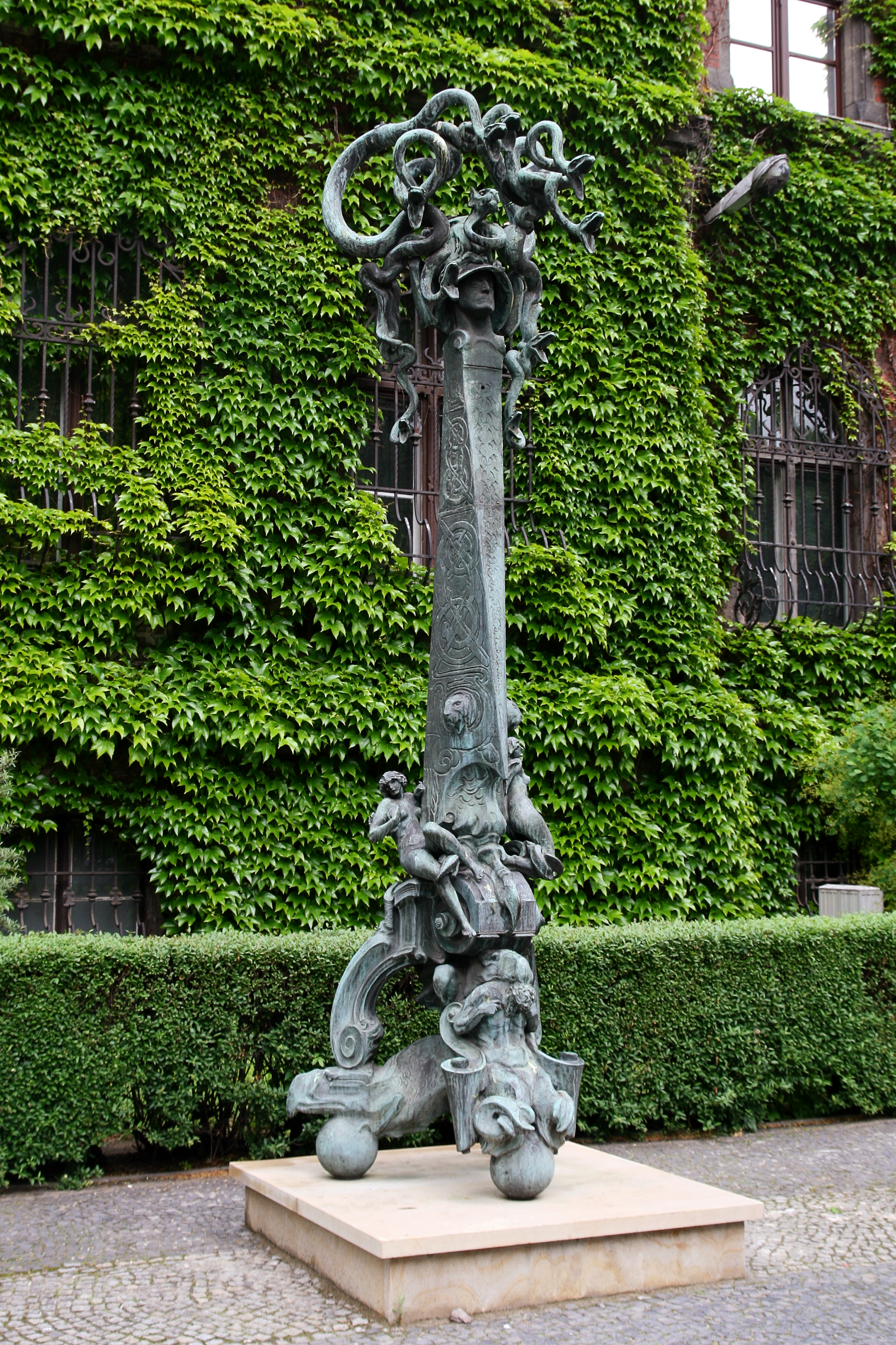 Sculpture by Christian Behrens located before the National Museum in Wrocław.